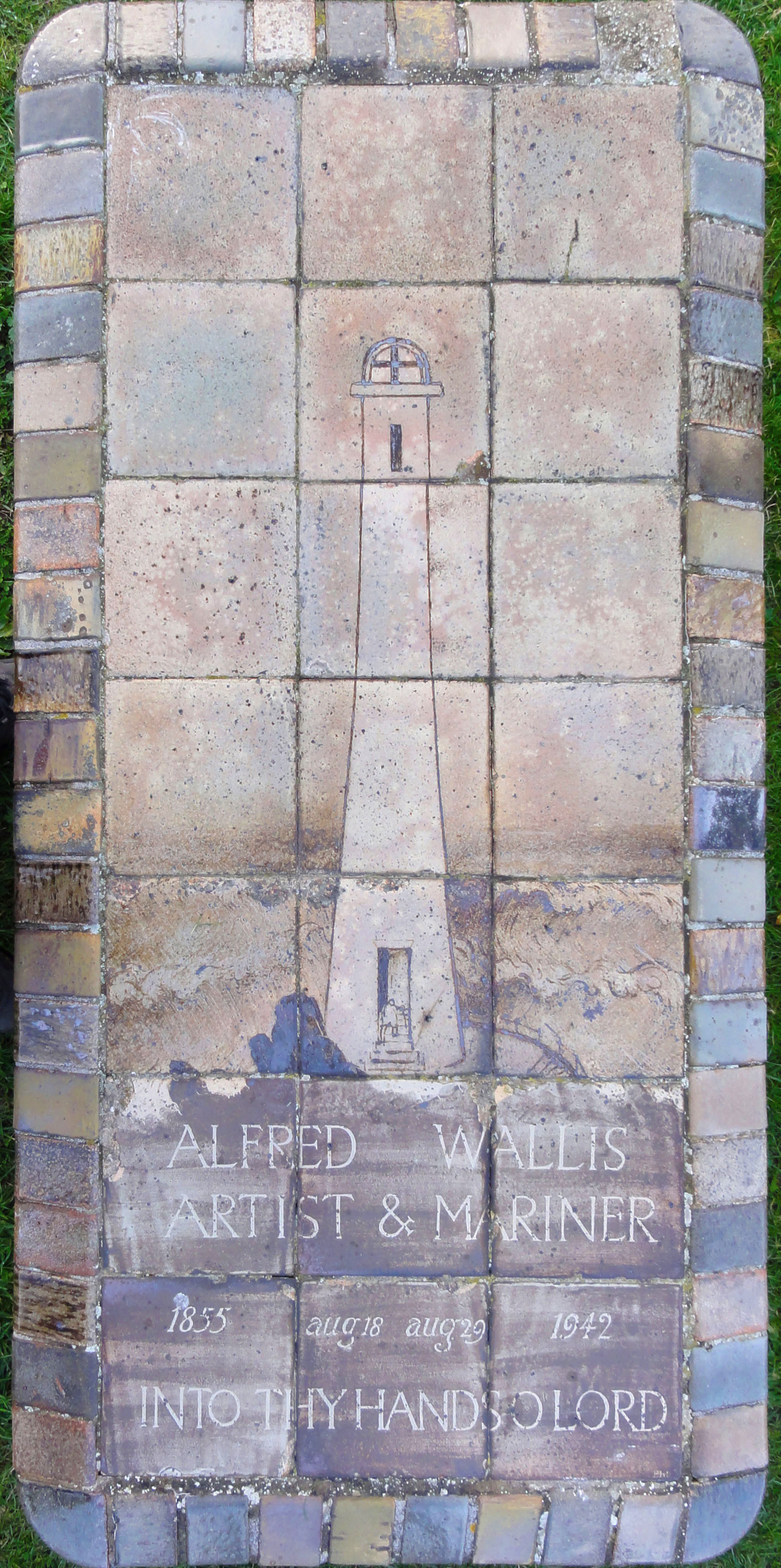 The tomb of Alfred Wallis at Barnoon cemetery, St Ives, Cornwall. Also